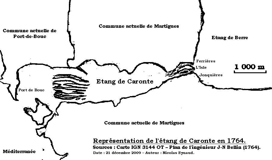 Map of former Etang de Caronte in 1764.